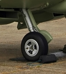 Cast light alloy wheel and undercarriage leg of a WW2 Supermarine Seafire